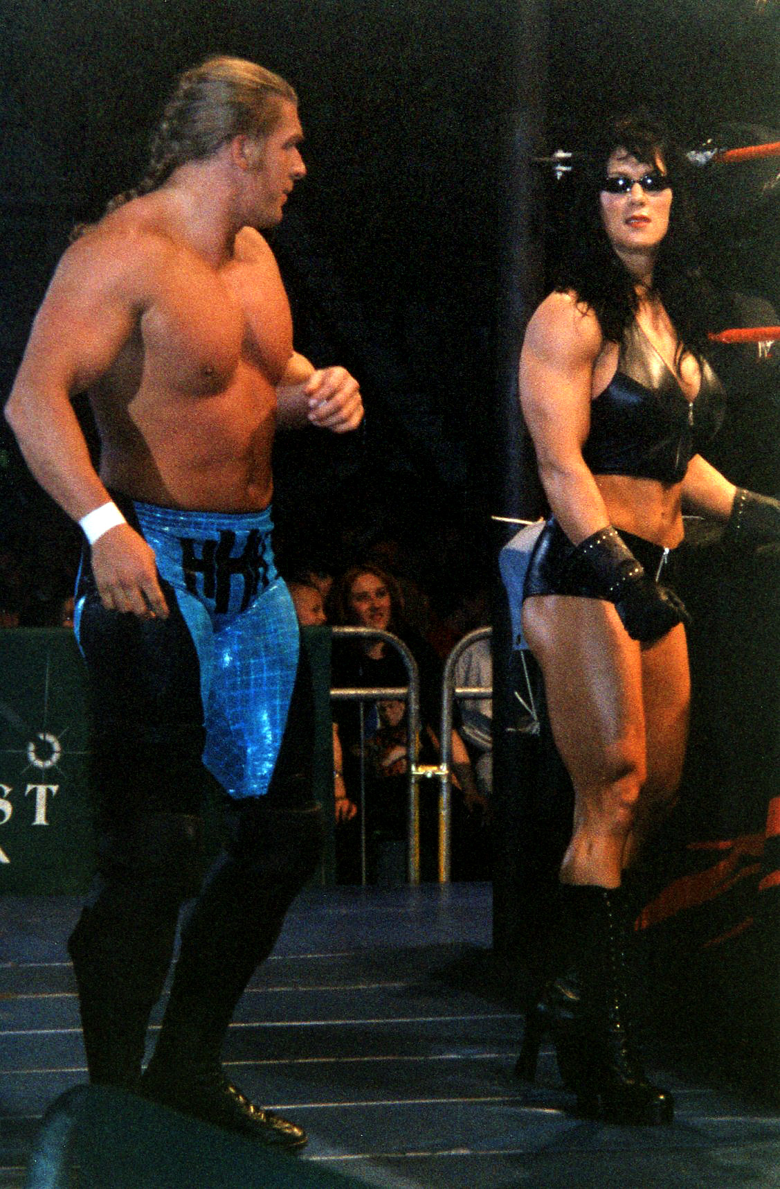 WWE - Newcastle Arena 030499 (11)